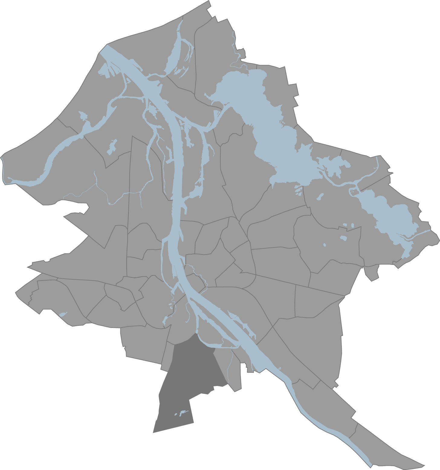 A map of Riga, Latvia with the eponymous commune highlighted